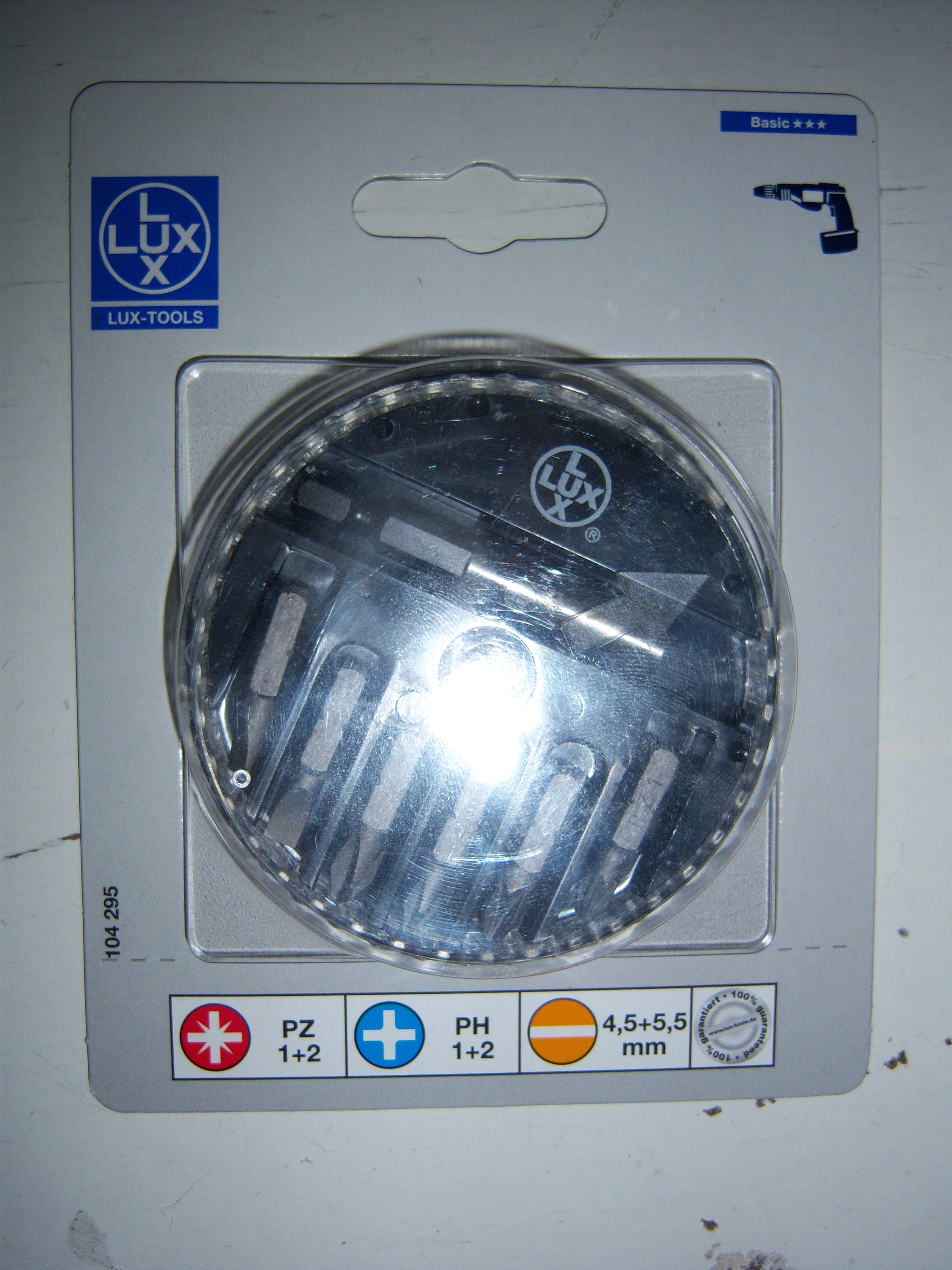 LUX screw driver